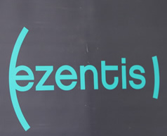 Ezentis Group